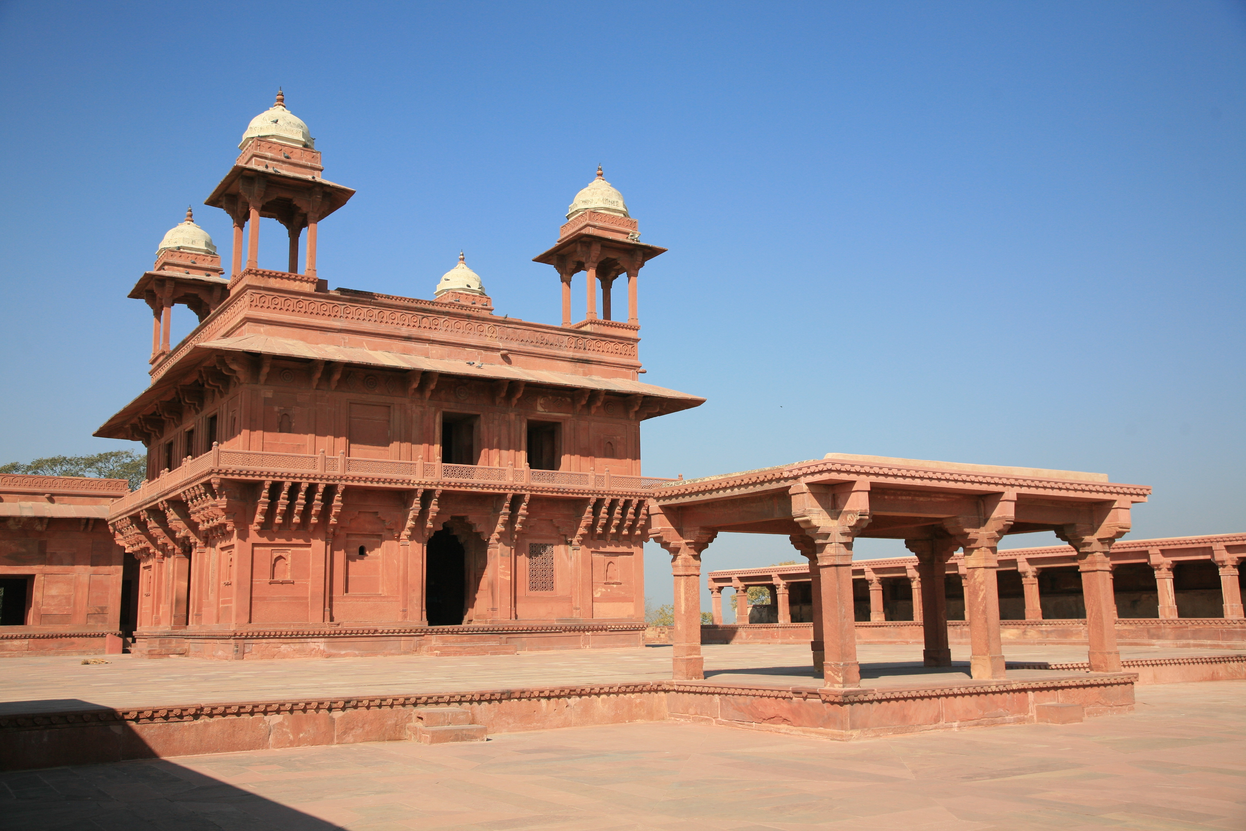 The Diwan-i-Khas (The private audience hall) in Fatehpur Sikri.